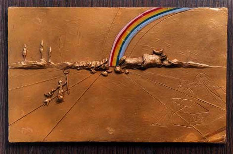 Salvador Dali, "The Rainbow," 1972